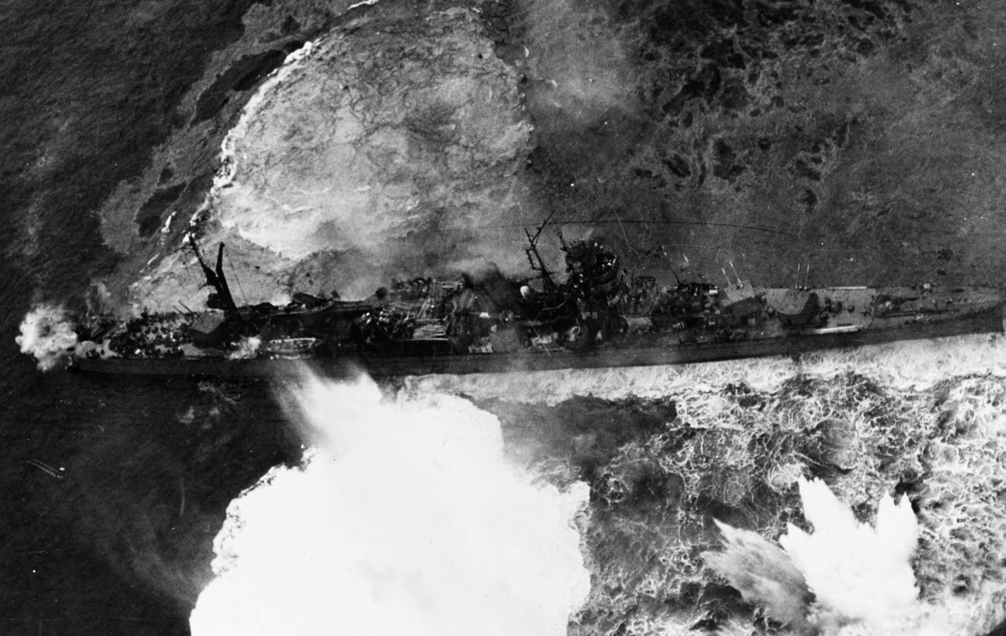 Operation "Ten-Go", 7 April 1945: The Japanese light cruiser Yahagi under attack by U.S. planes. At 1246 hrs, during the first wave, a torpedo hit Yahagi directly in her engine room, killing the entire engine room crew and bringing her to a complete stop. One direct hit can be seen bursting on the fantail, as near-misses straddle her. The photo was taken before turret no. 2 was hit by a bomb.